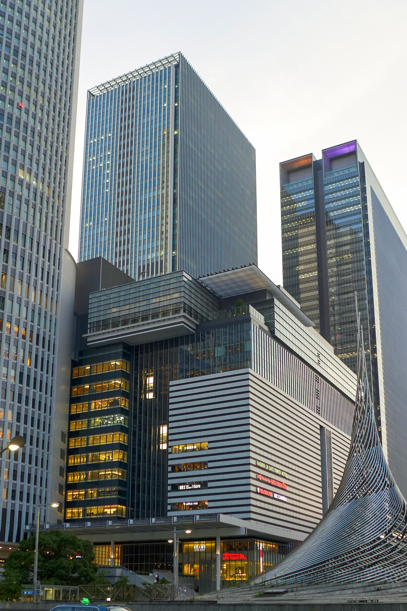 JR Gate Tower